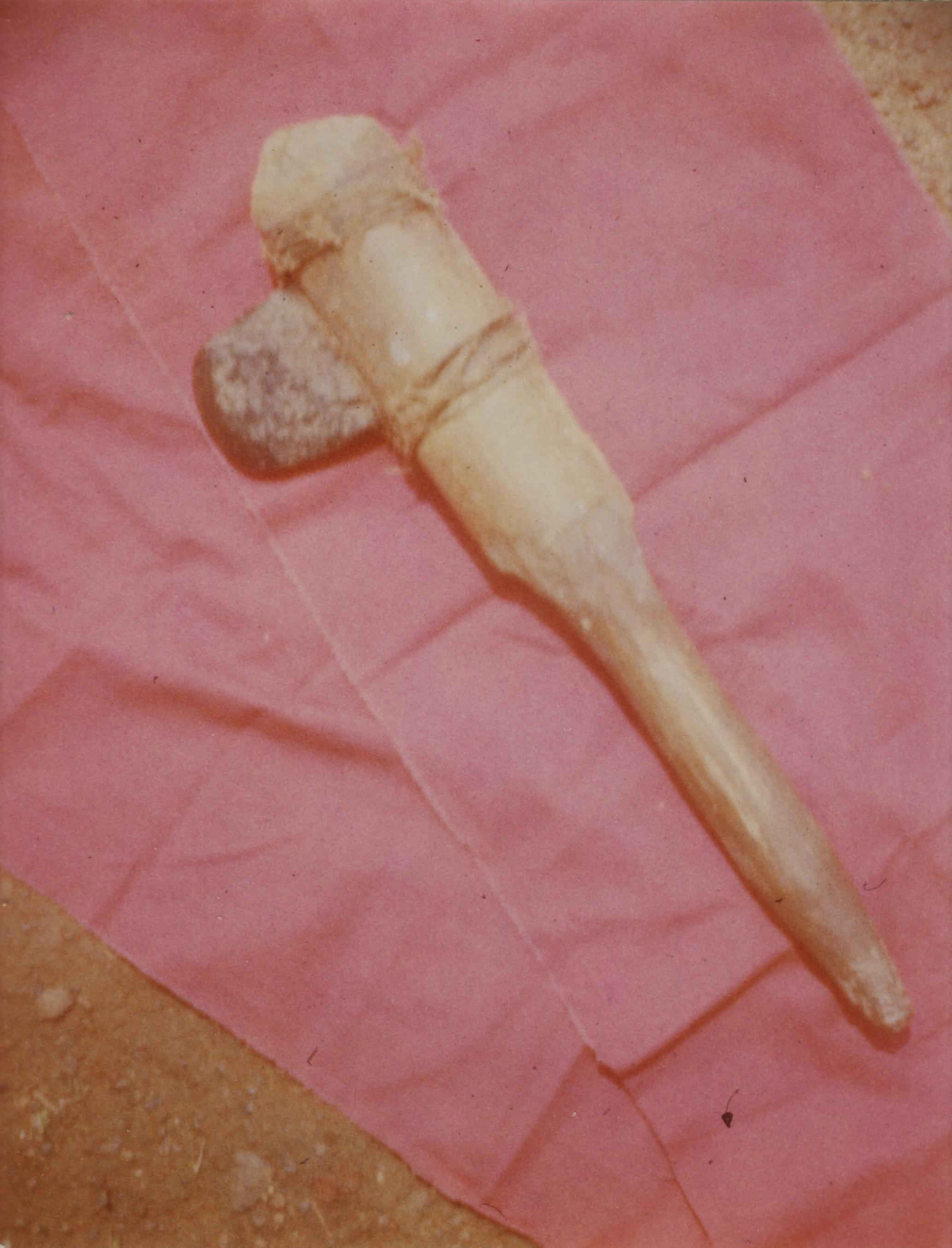 Photo taken in 1979. Amerindian stone axe of the Oyaricoulet (also "Long Ears") tribe from Brazil. They met up with French soldiers, accompanied by the Wayana leader Mimi Siku, at Trijonction.